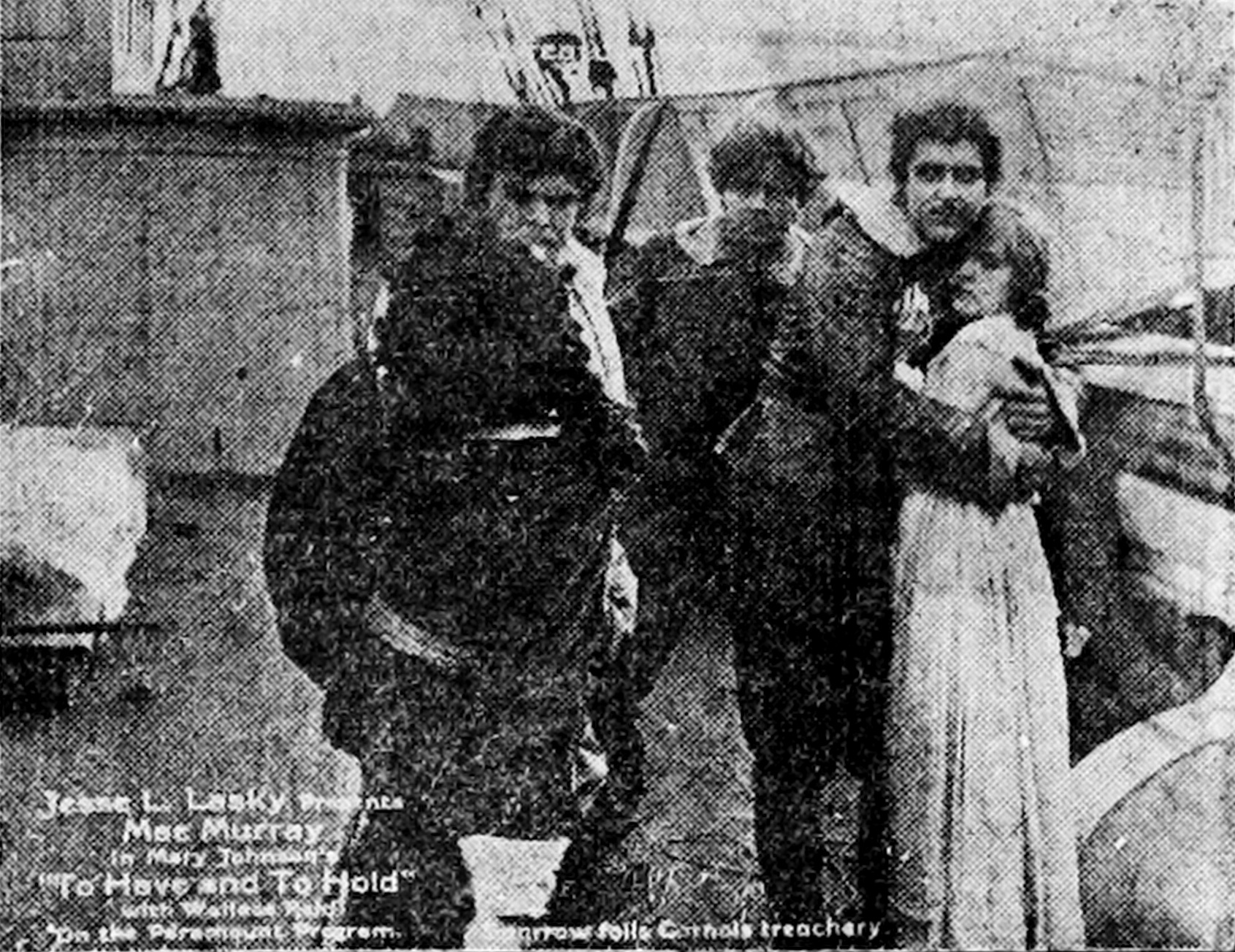 To Have and to Hold is a 1916 American silent adventure/drama film directed by George Melford. This is a publicity photo from a newspaper.